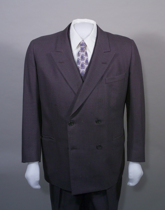 Double-breasted gray and blue sharkskin suit of Harry S. Truman